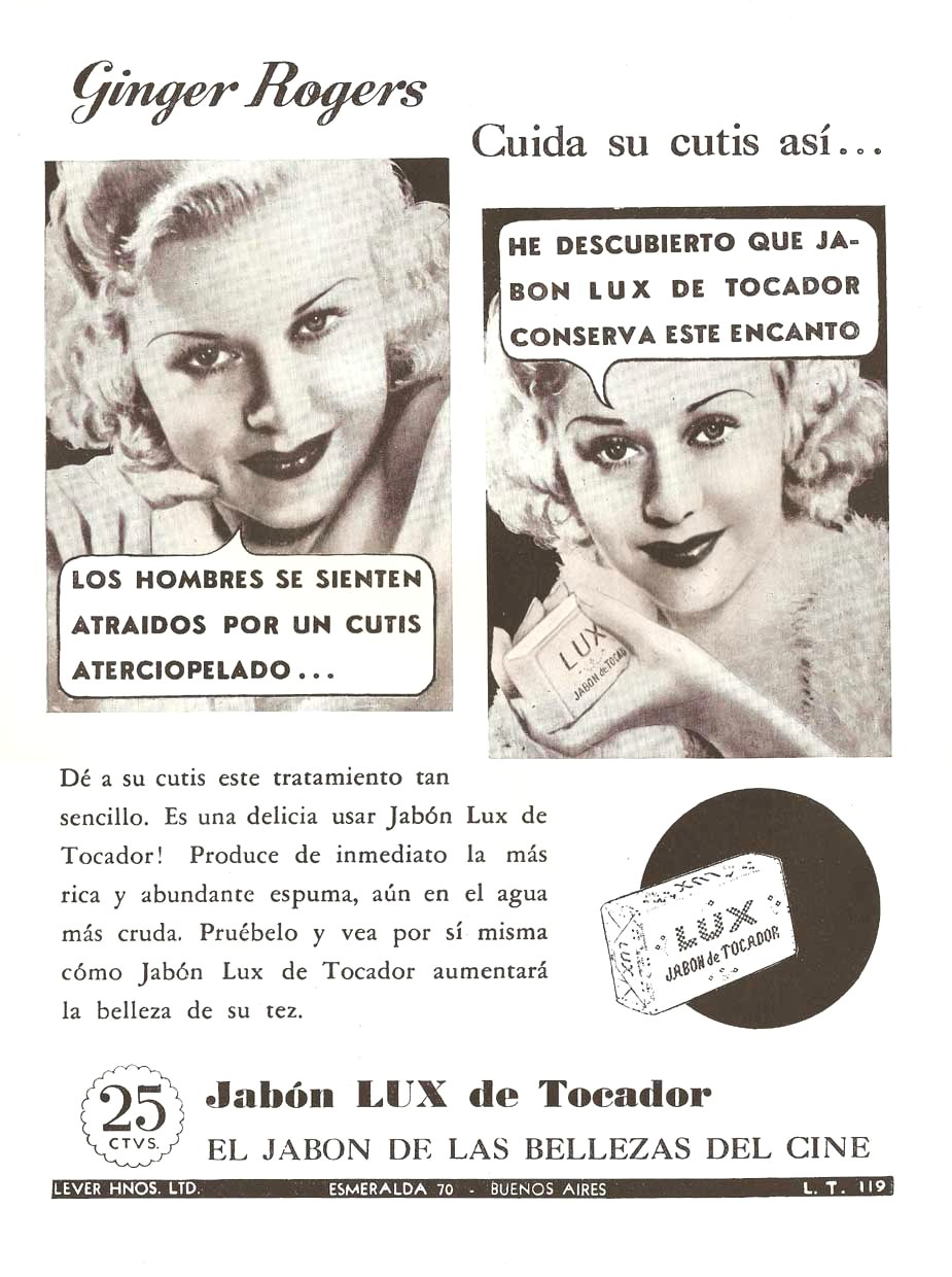 Publicity photo of LUX Soap & Ginger Rogers for Argentinean Magazine